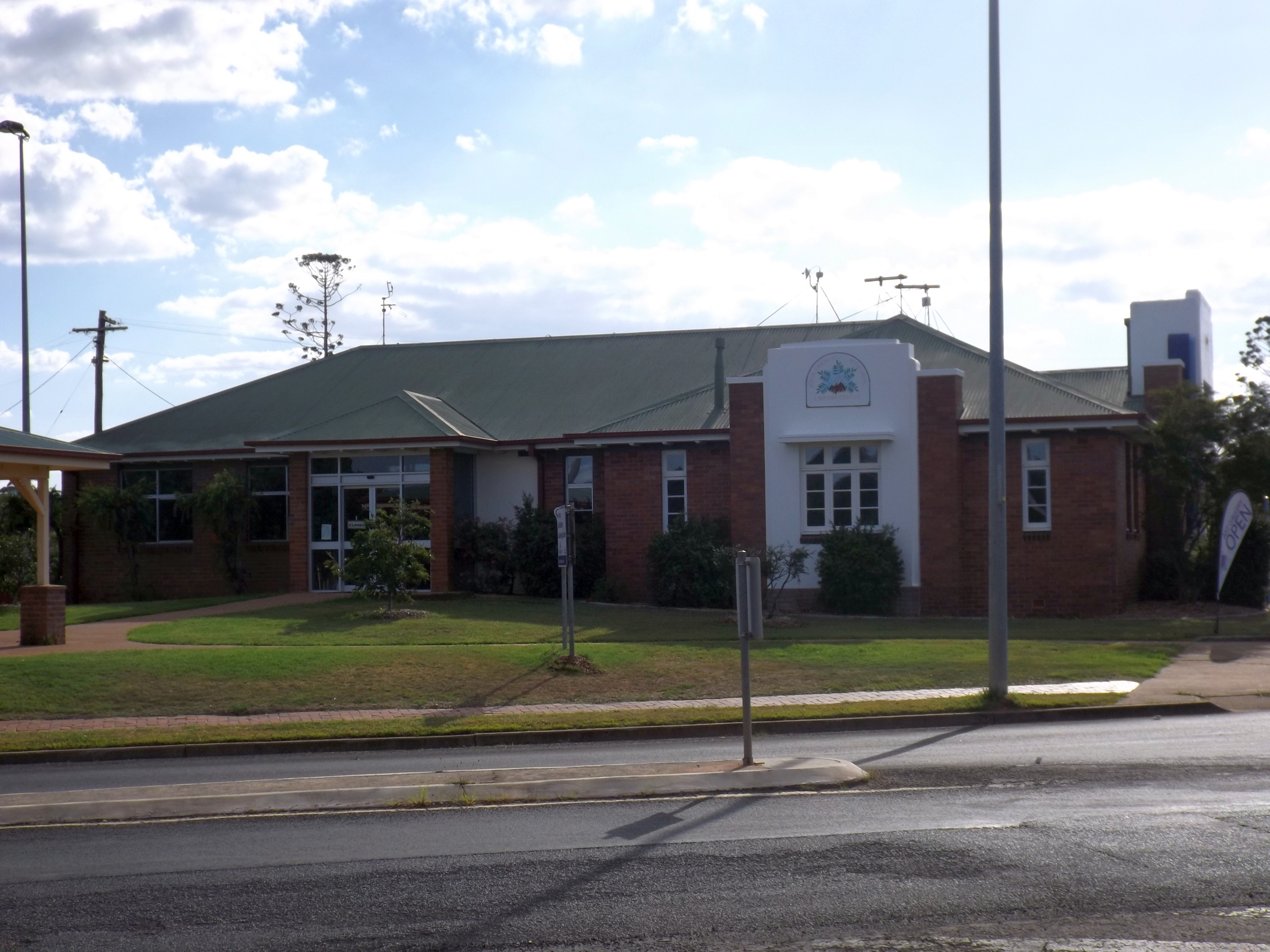 Photo of Former Crows Nest Shire offices at Crows Nest, Darling Downs, Queensland, Australia.